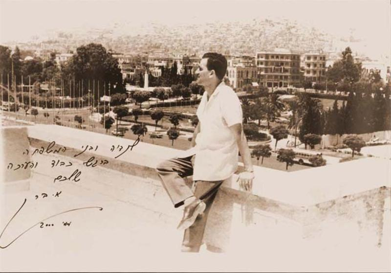 Elie Cohen at his Damascus residence in 1963. Elie Cohen, the Israeli spy known in Syria at the time by the alias Kamel Amin Thabit, was beleived to be an expatriate businessman living in South America. He befriended leading Syrian Baathist politicians, including President Amin al-Hafez, but was eventually arrested, trialed, and executed in Marjeh Square in May 1965. The photo is taken opposite the Indian Embassy in Damascus.